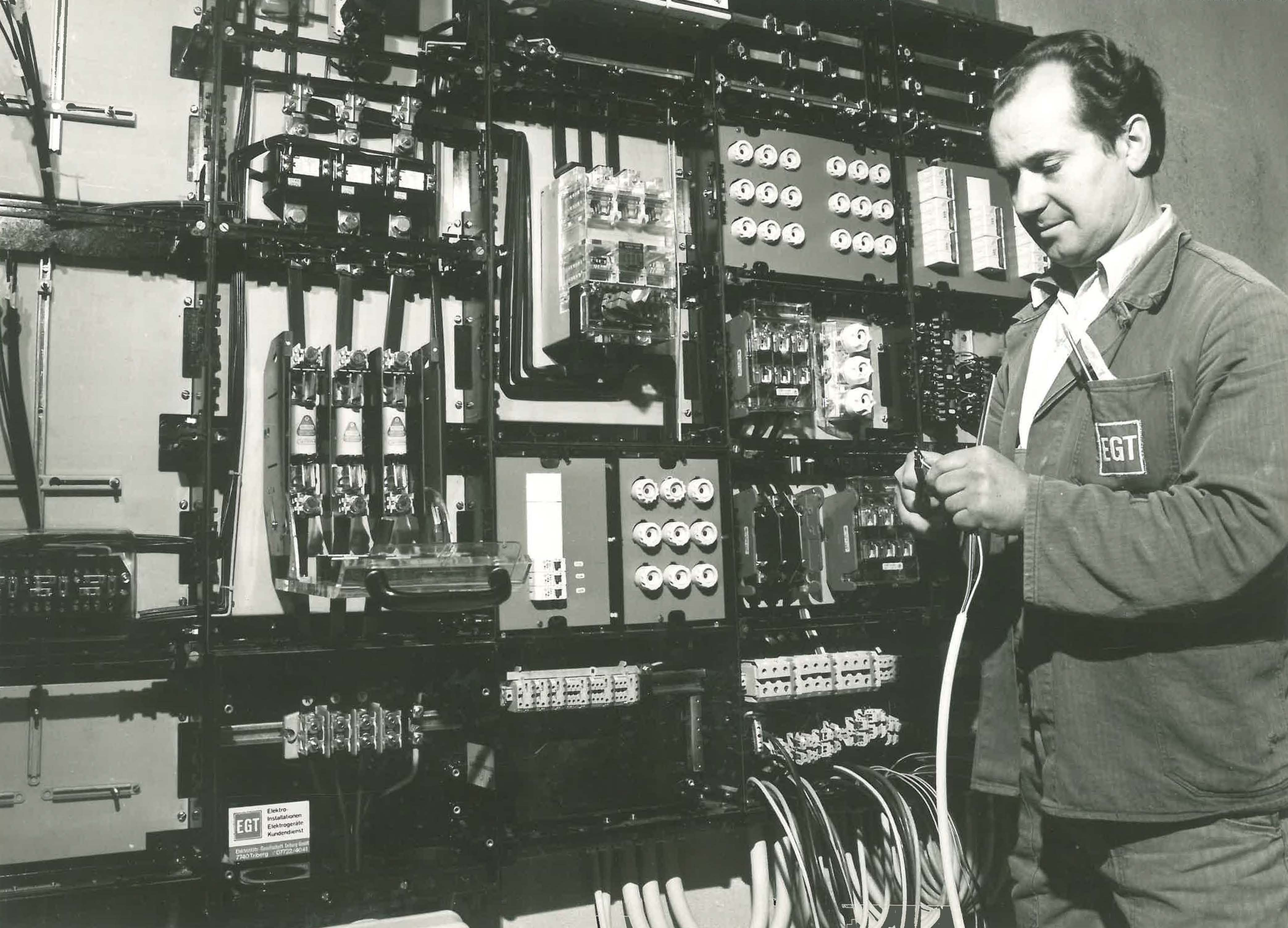 a worker at a fuse